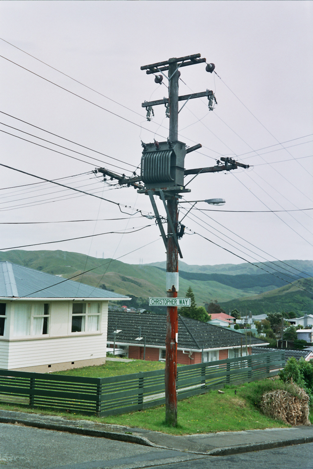 Photograph of a three-phase pole mounted distribution transformer in a suburb near Wellington, New Zealand. It was taken by me.